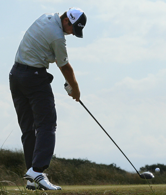 Sean O'Hair driving during a practice round for the 2008 Open Championship.